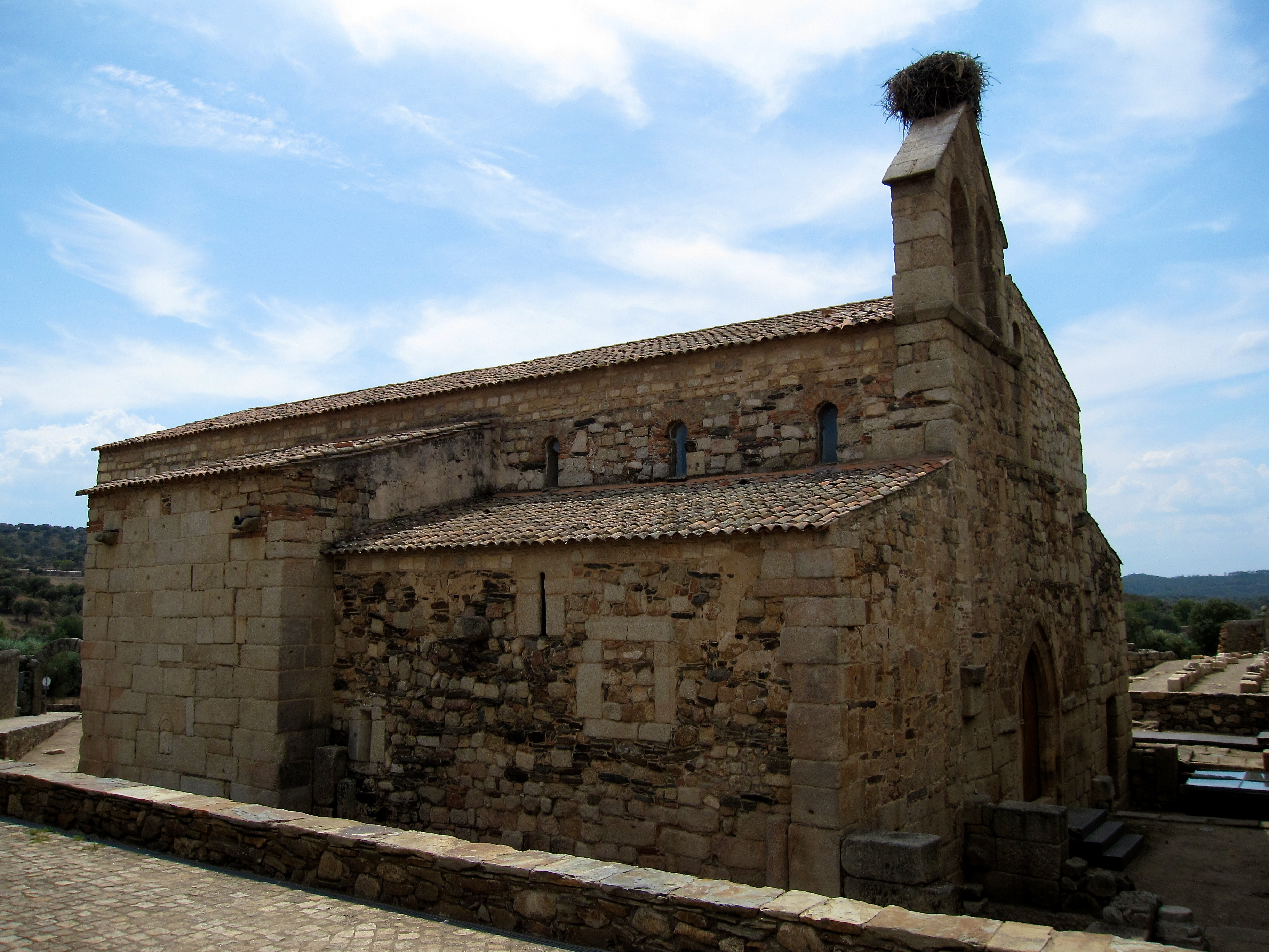 This monument is classified as Monumento Nacional. This file was uploaded for Wiki Loves Monuments in Portugal with the unique identifier 97005882.